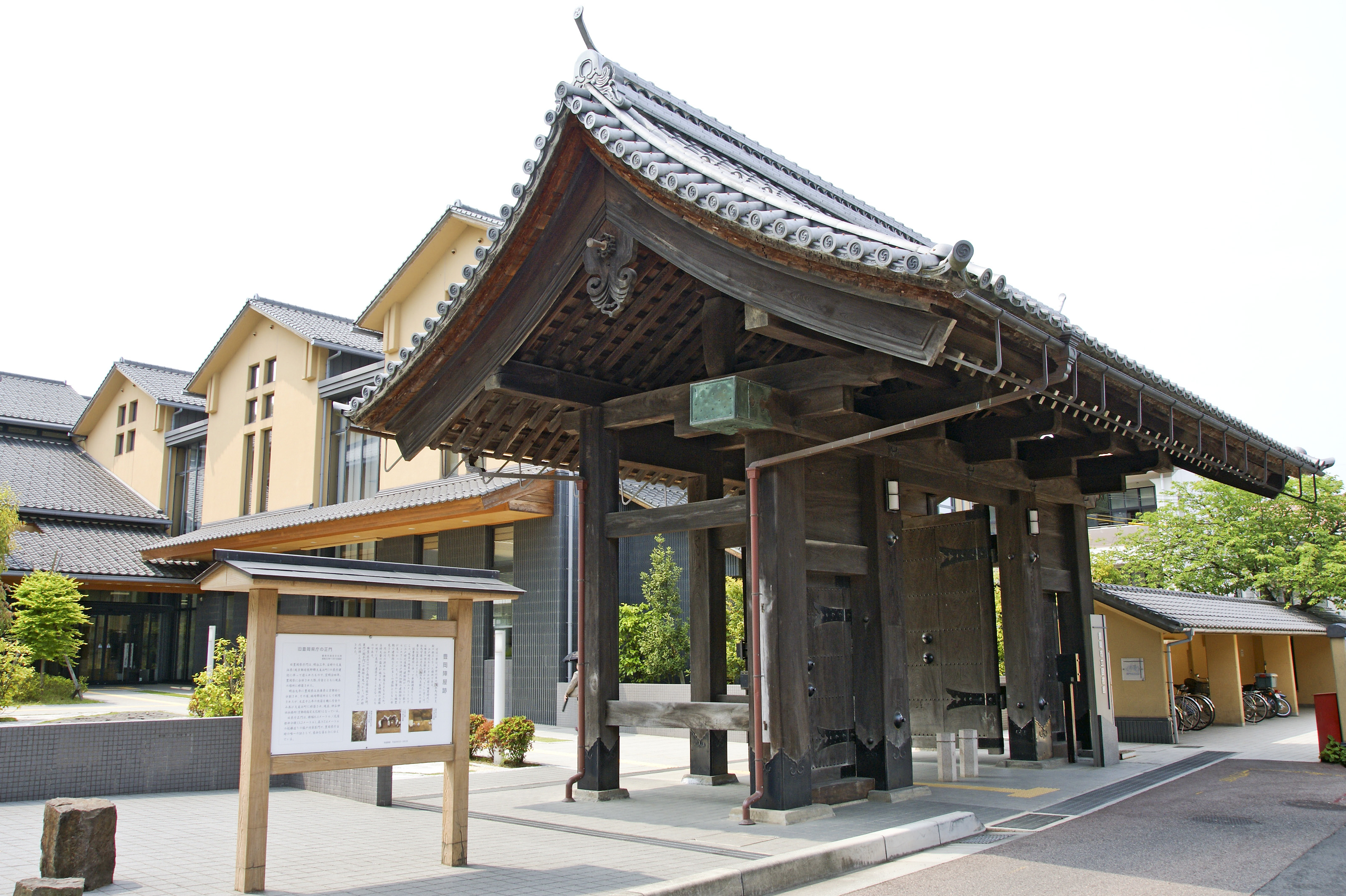 Toyooka City Library in Toyooka, Hyogo prefecture, Japan